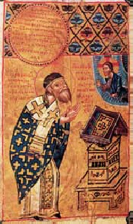 Jacob of Serres